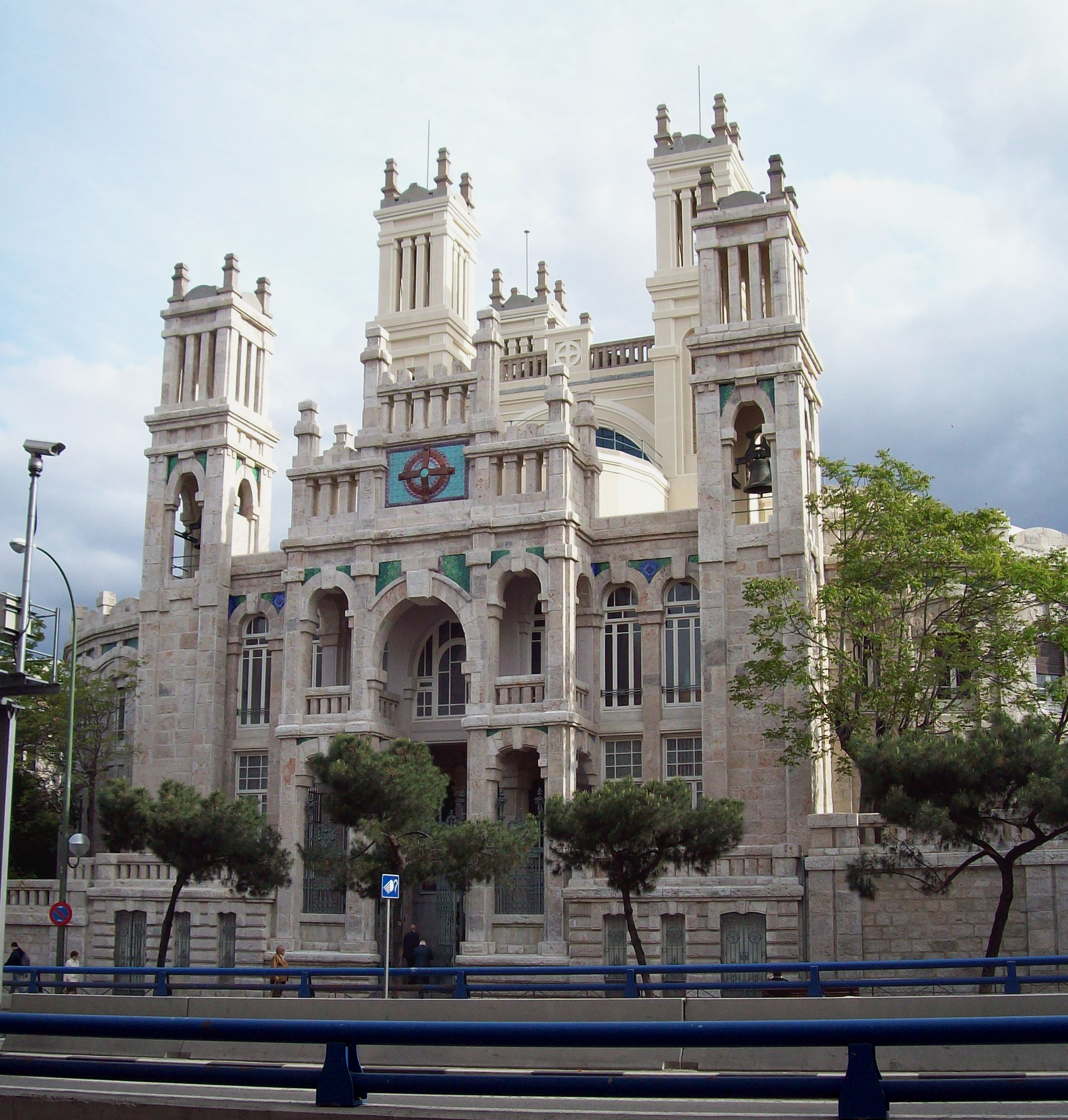 North façade of the former Maudes Hospital, at 18 Calle de Raimundo Fernández Villaverde (street) in Chamberí district in Madrid (Spain). It was projected in 1908 by architects Antonio Palacios and Joaquín Otamendi Machimbarrena, and built between 1909 and 1916.